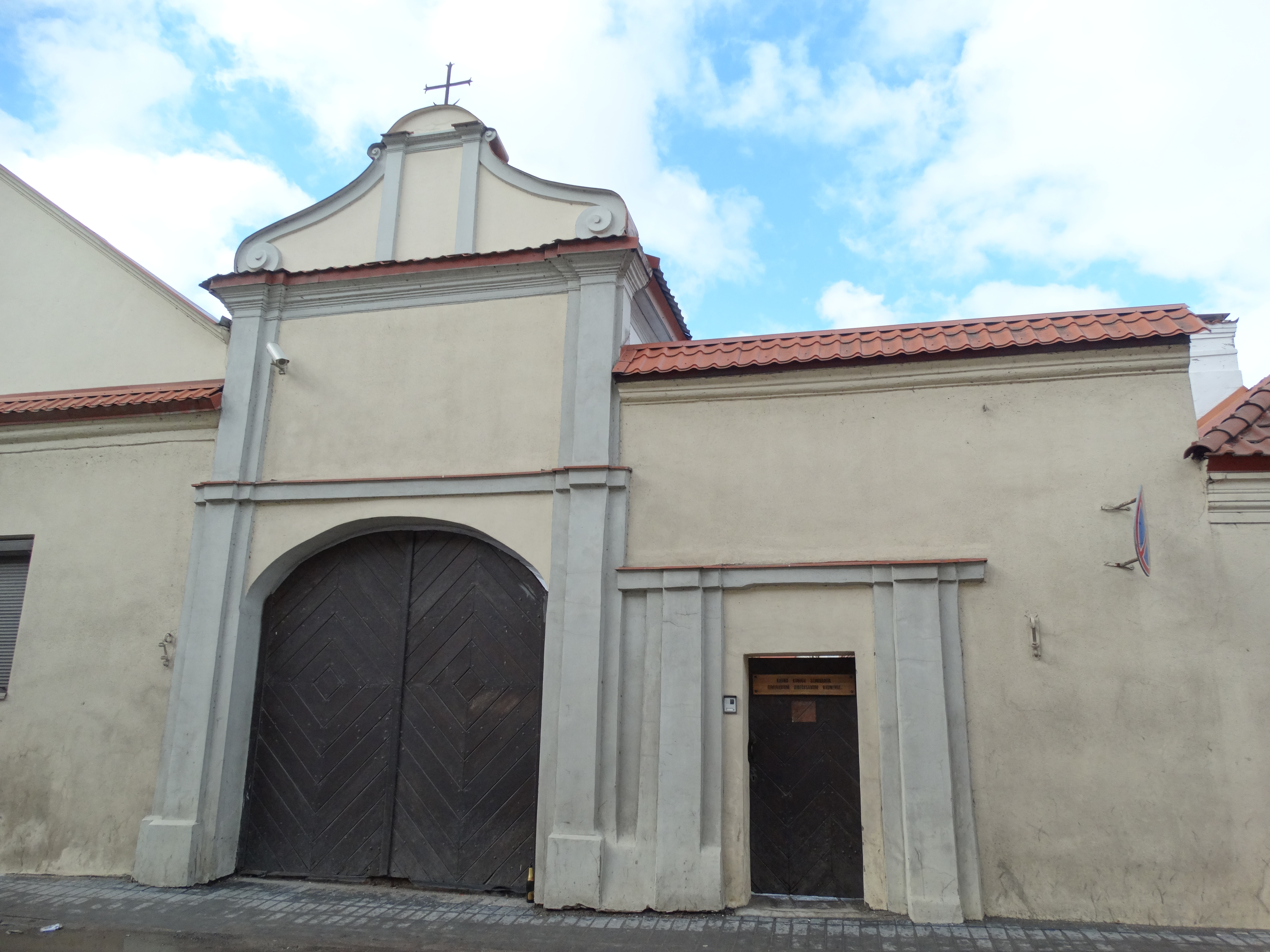 Priest Seminary, Kaunas, Lithuania